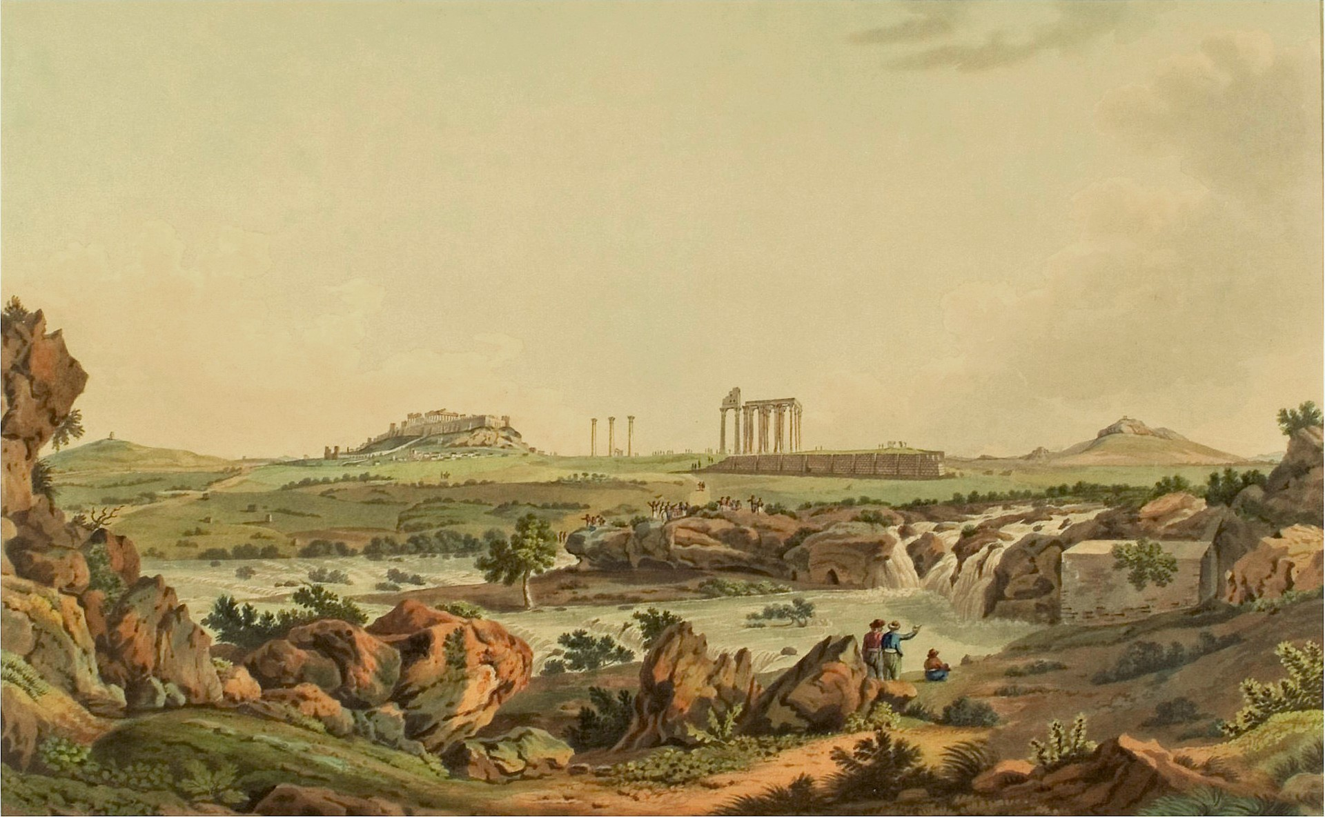 Temple of Iupiter Olympios and River Ilissos